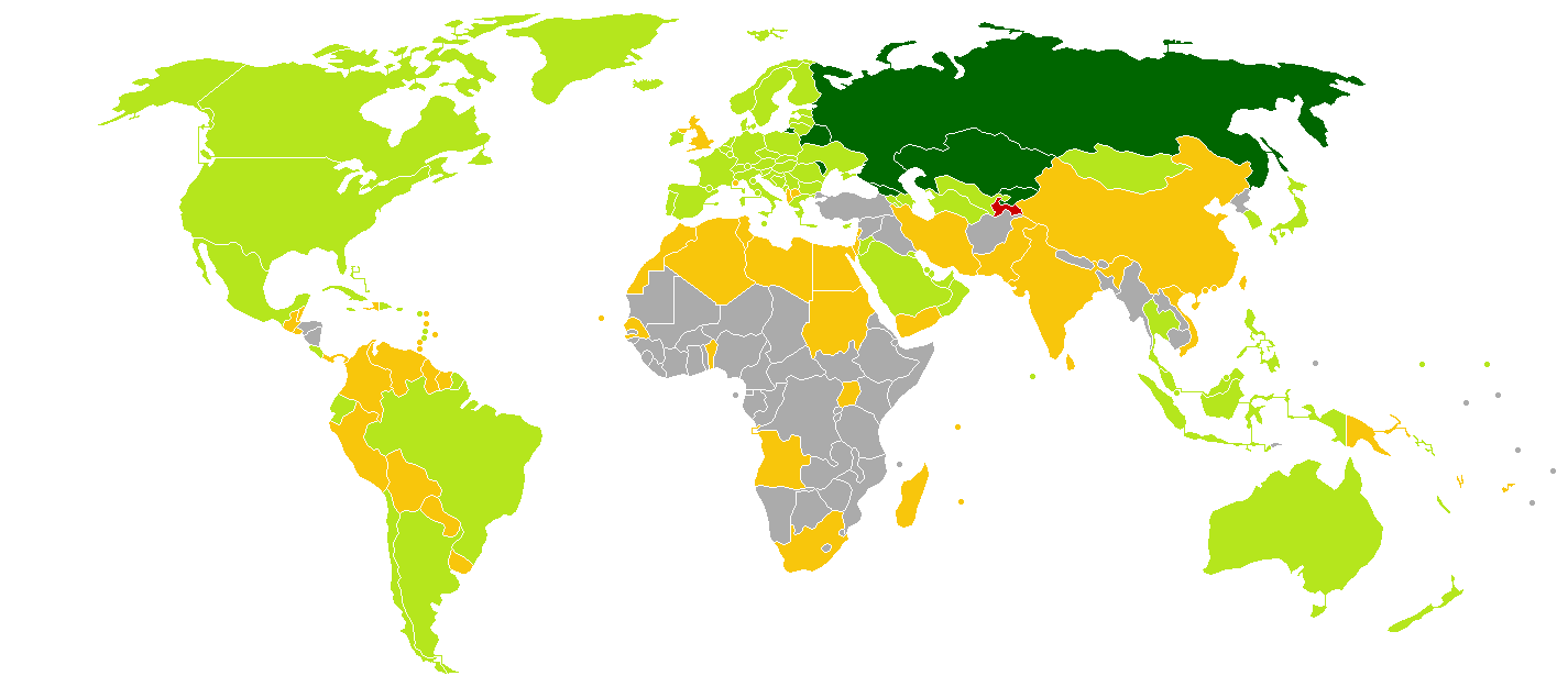 Visa policy of Tajikistan Tajikistan Visa-free - unlimited stay Visa-free - period varies eVisa Visa required